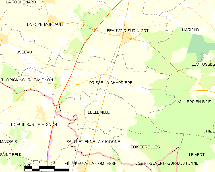 Map of French municipality Prissé-la-Charrière